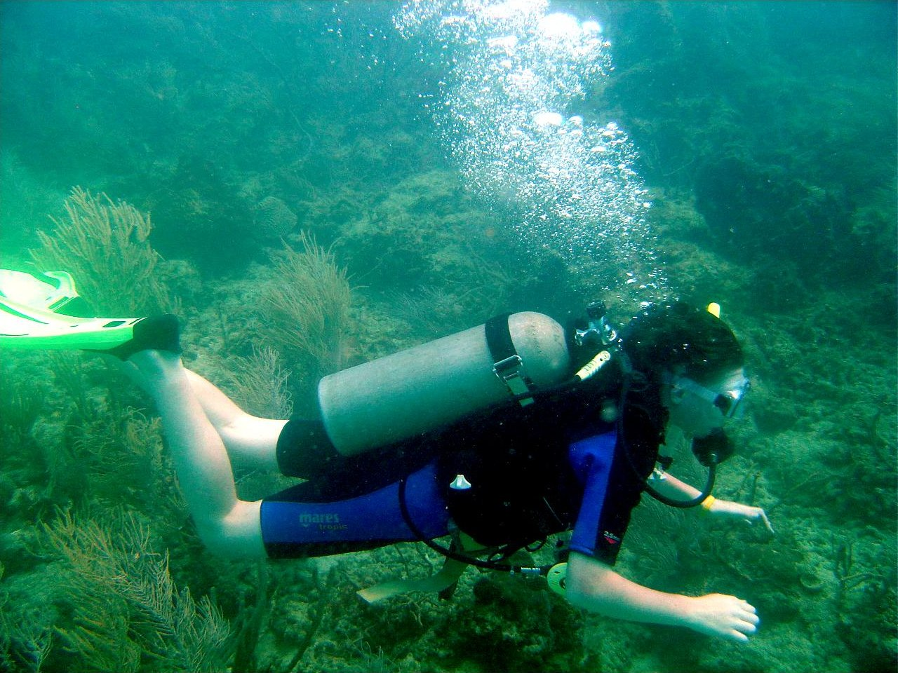 I took picture